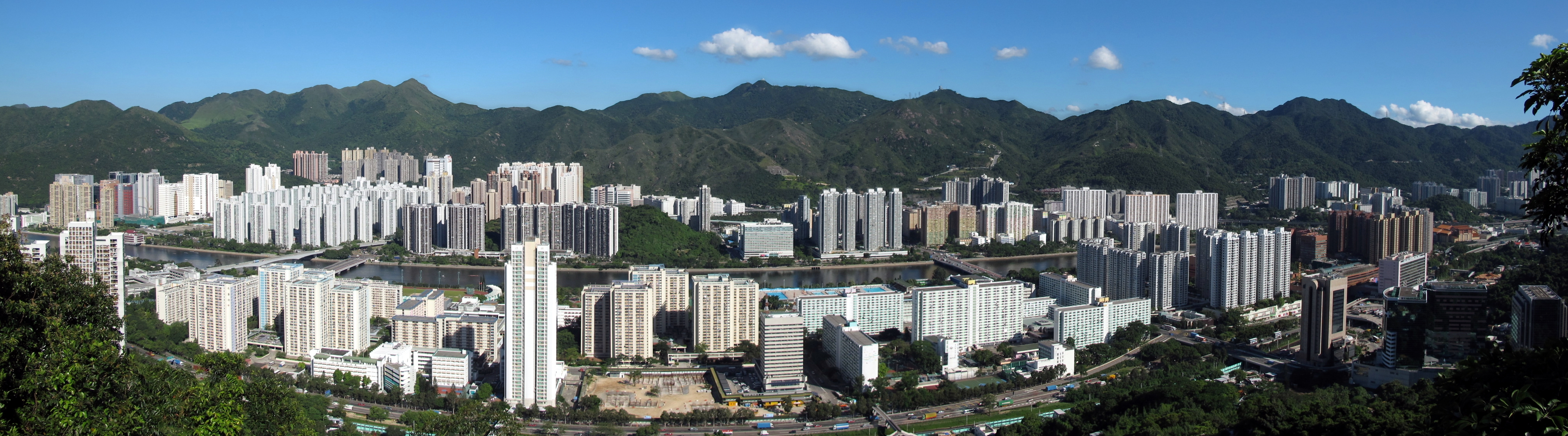 HK Shatin New Town Panorama 沙田新市鎮全景